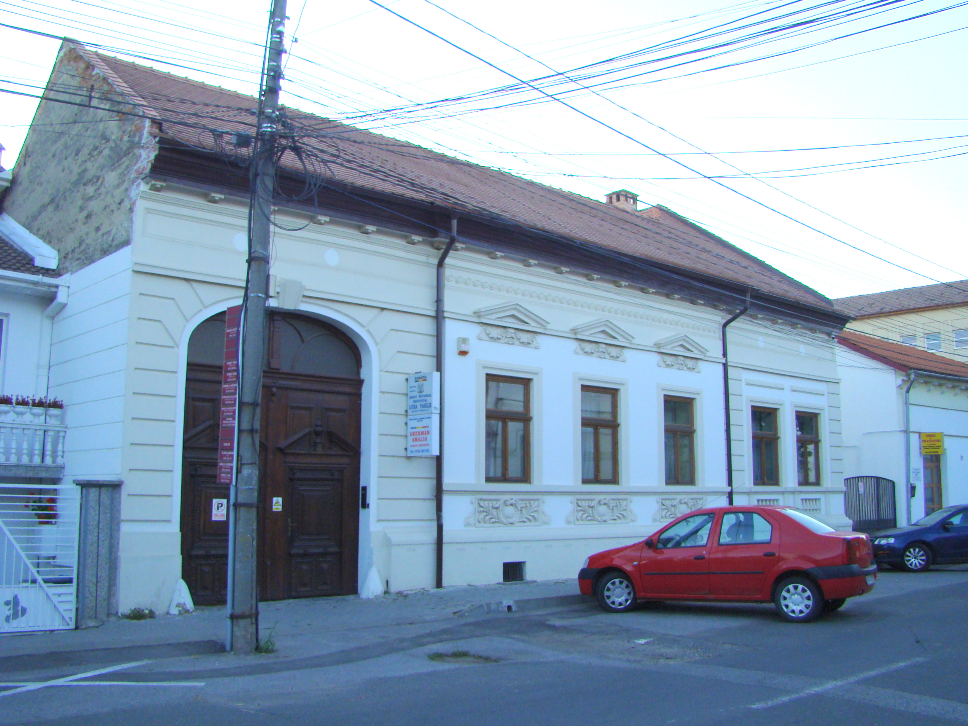 House, historic monument, Trandafirilor street, number 17, Alba Iulia, Alba county, Romania